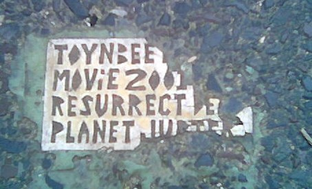 Toynbee tile at the intersection of Eighth & Ranstead Sts in Philadelphia.